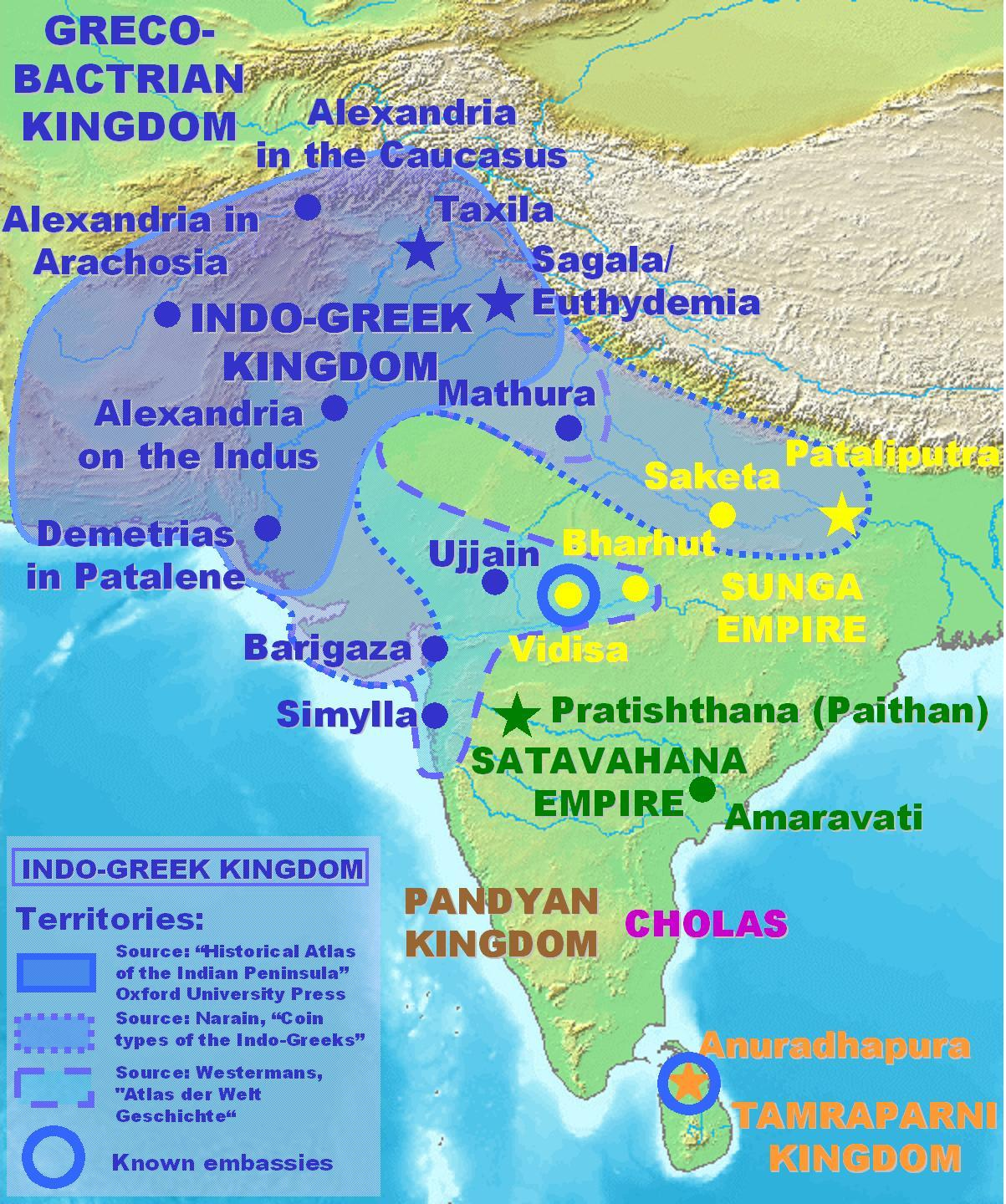 Map of the Indo-Greeks. Source from Narain Coins of the Indo-Greeks and Westermann Grosser Atlas zur Weltgeschichte. Own work.